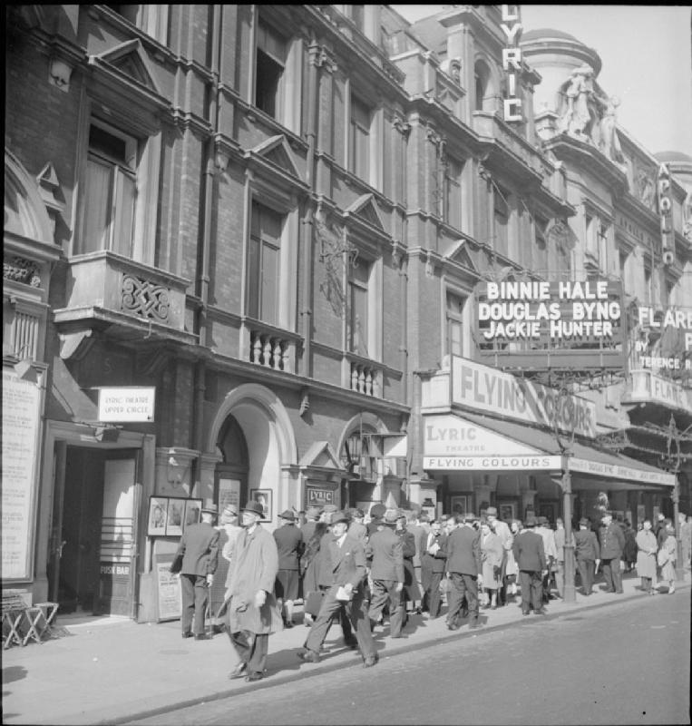 Wartime Theatre- Entertainment in London, England, UK, August 1943 Actor Douglas Byng (centre, just stepping onto the pavement) arrives for work at the Lyric Theatre, where he is starring in 'Flying Colours' with Binnie Hale and Jackie Hunter. Behind him, the queue of people awaiting entry can be seen under the canopy which covers the entrance to the theatre. The original caption states that "with petrol restrictions in force, even stars walk to work".